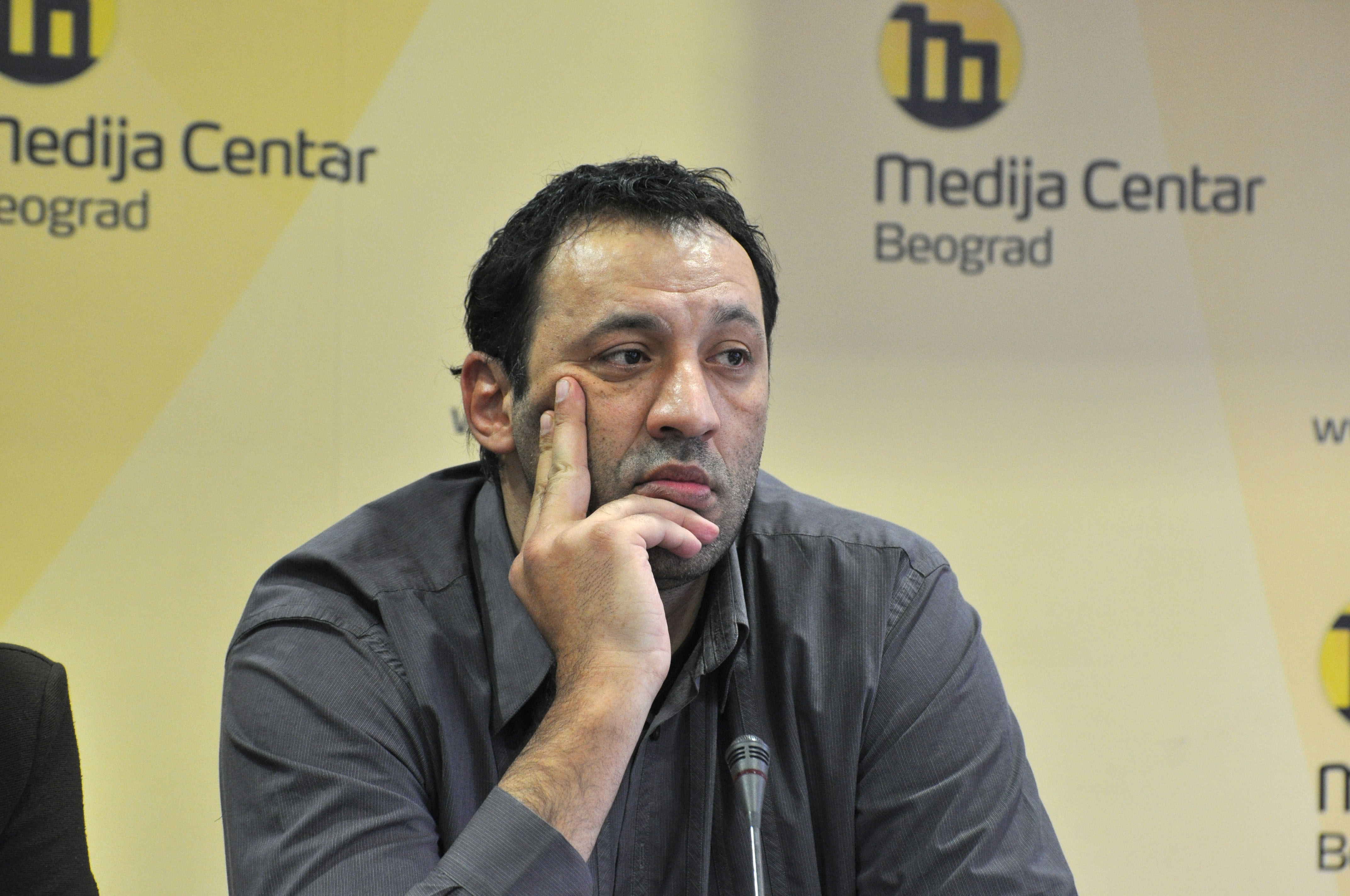 Vlade Divac